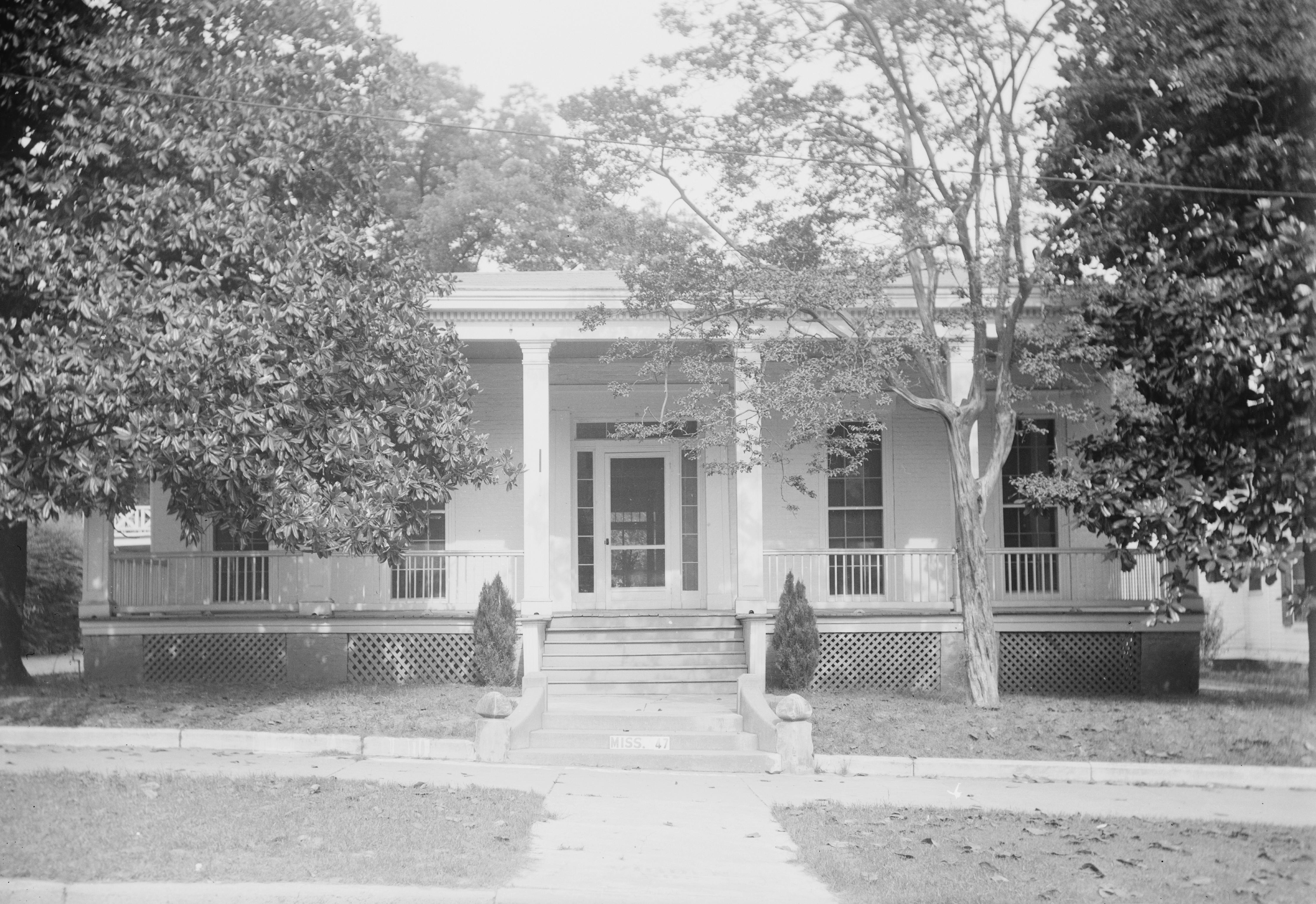 Front of the Virden-Patton House, located at 512 N. State Street in Jackson, Mississippi, United States. Built in 1849, it is listed on the National Register of Historic Places.